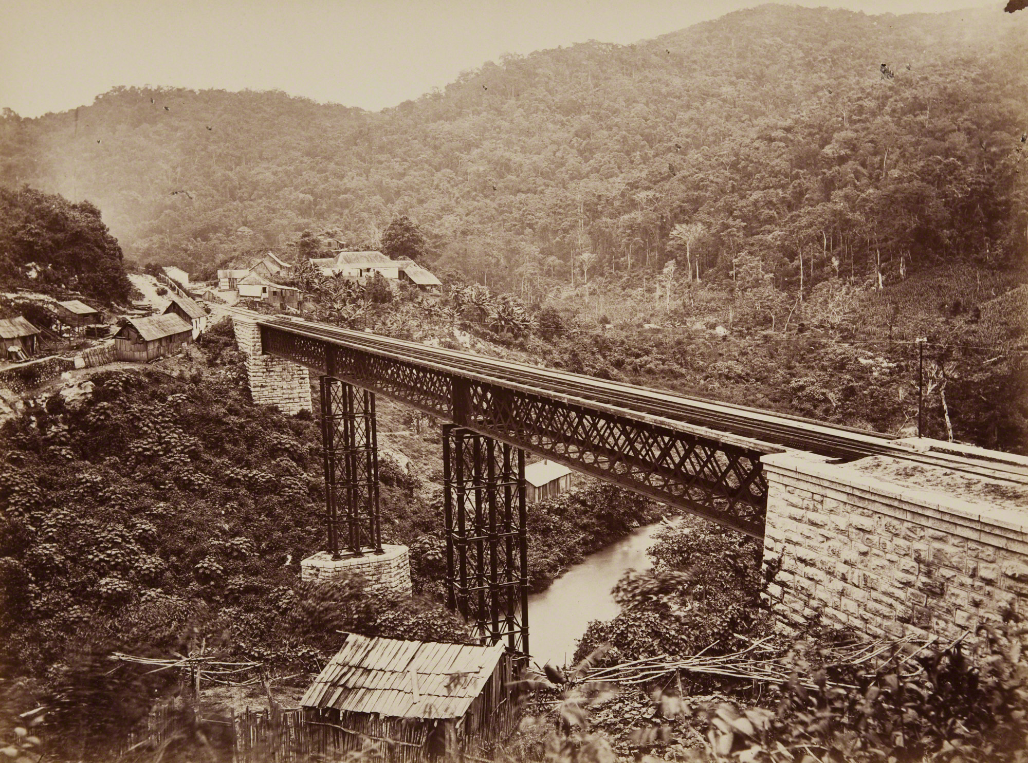 Title: Puente del Atoyac - Ferro Carril Mexicano Artist: Abel Briquet Artist Bio: French, active Mexico, late 19th century - early 20th century Creation Date: 1883 Process: albumen print Credit Line: Gift of James Garfinkel Accession Number: 1989.039.006